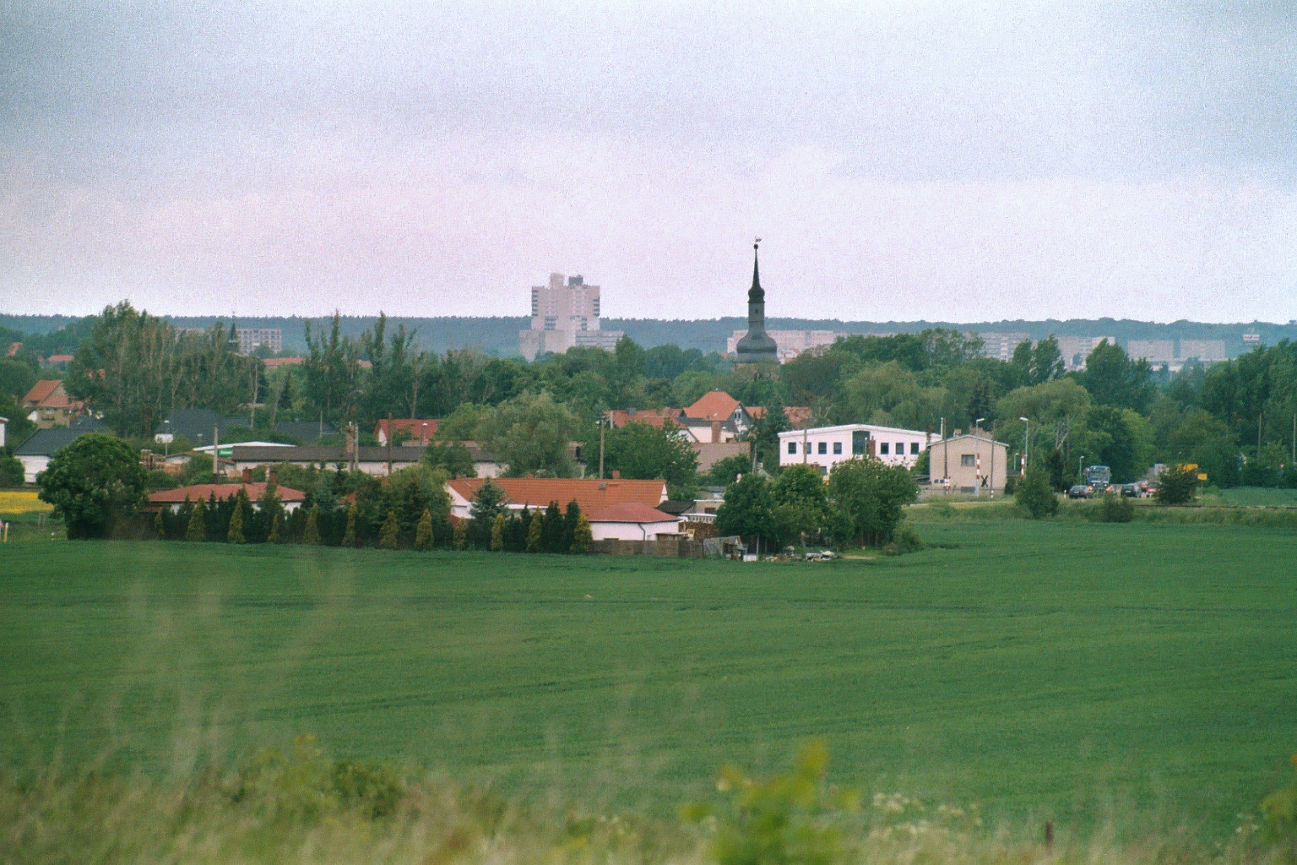 View from Delitz am Berge to Holleben,telephoto